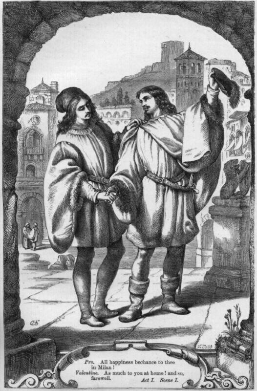 Valentine and Proteus from Act 1 Scene 1 of The Two Gentlemen of Verona